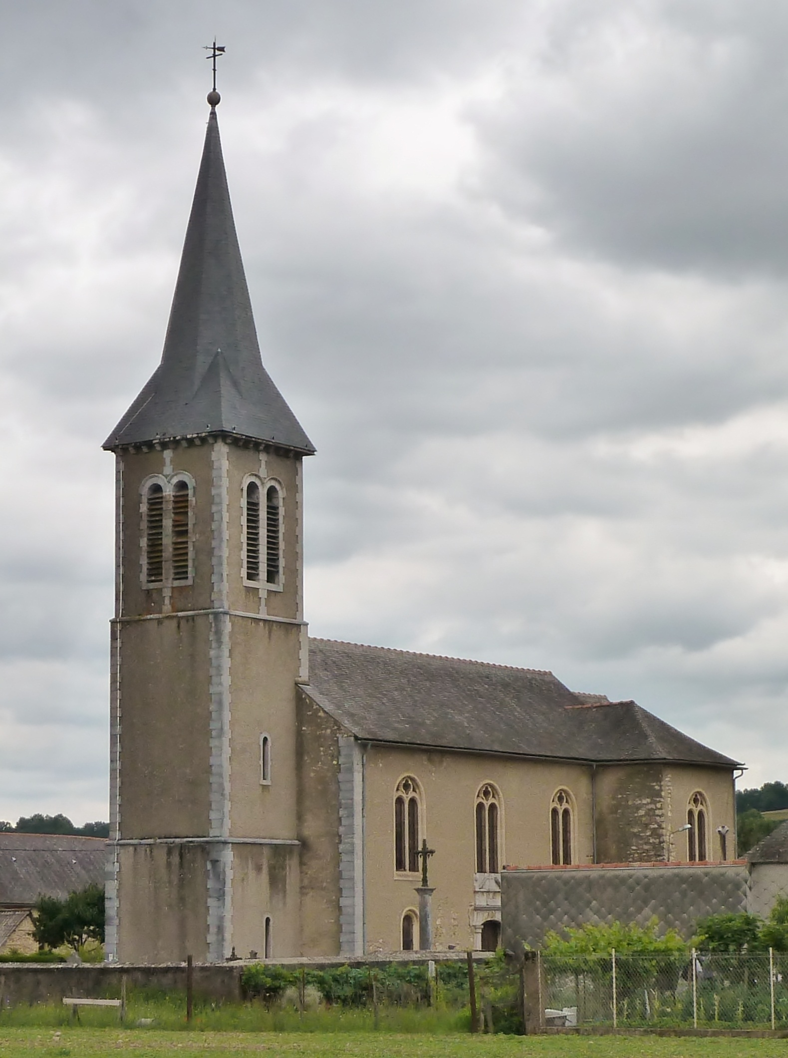 Church of Vielle-Adour from the front, France